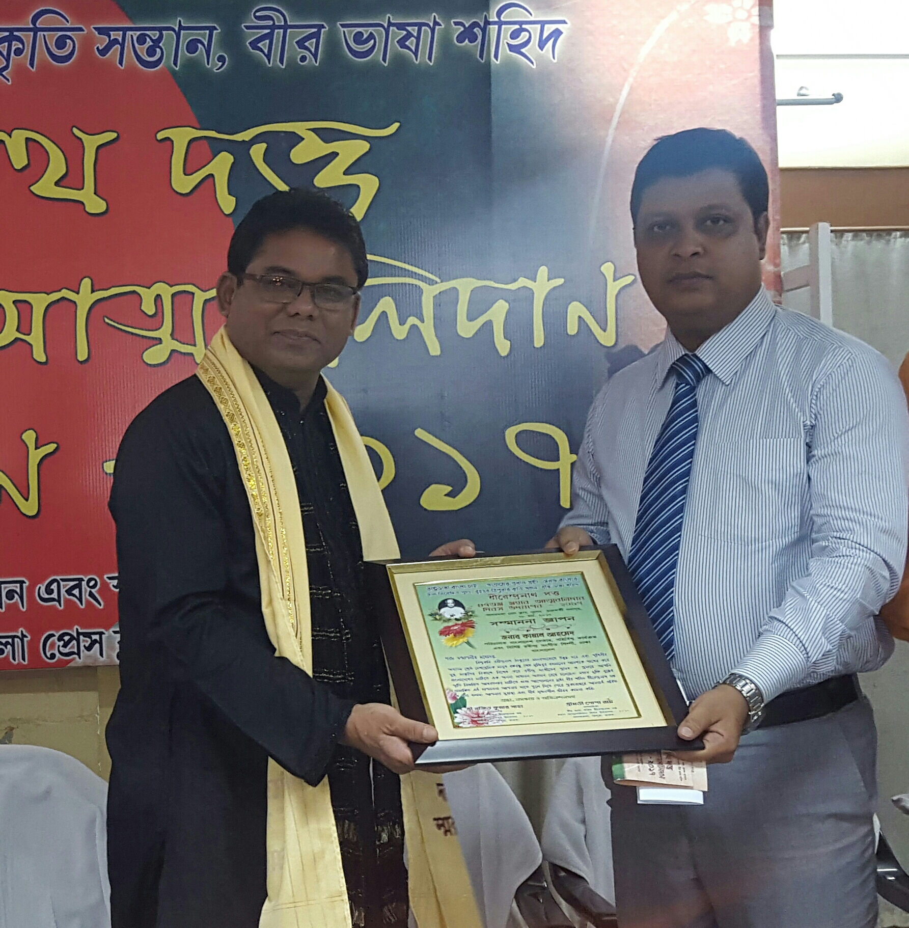 Singer Kamal Ahmed recieve Dhirendranath Dutta Award